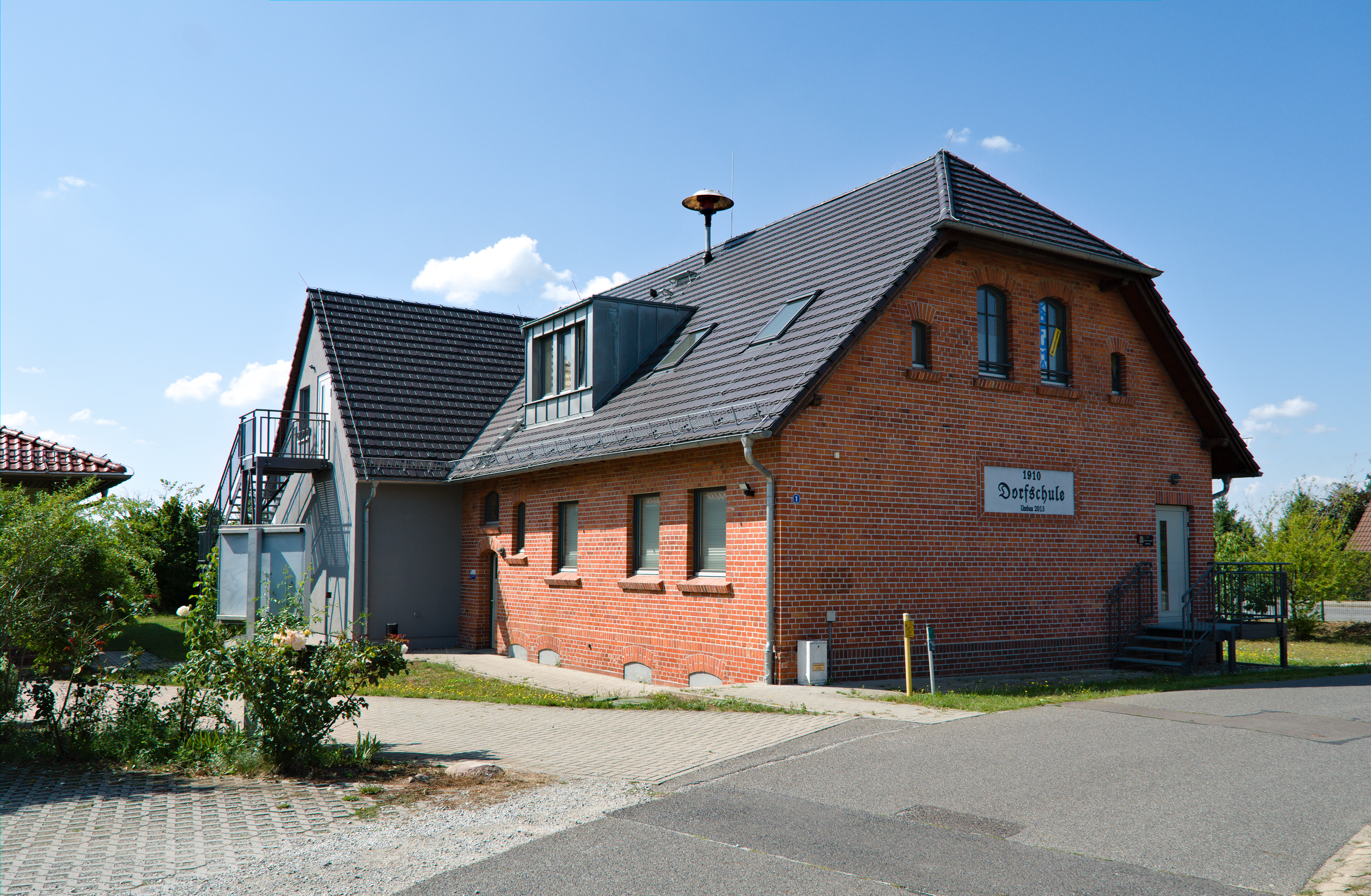 The old village school in Groß Oßnig was refurbished in 2013 and, among having other tenants, now serves as the fire house of the voluntary fire department.